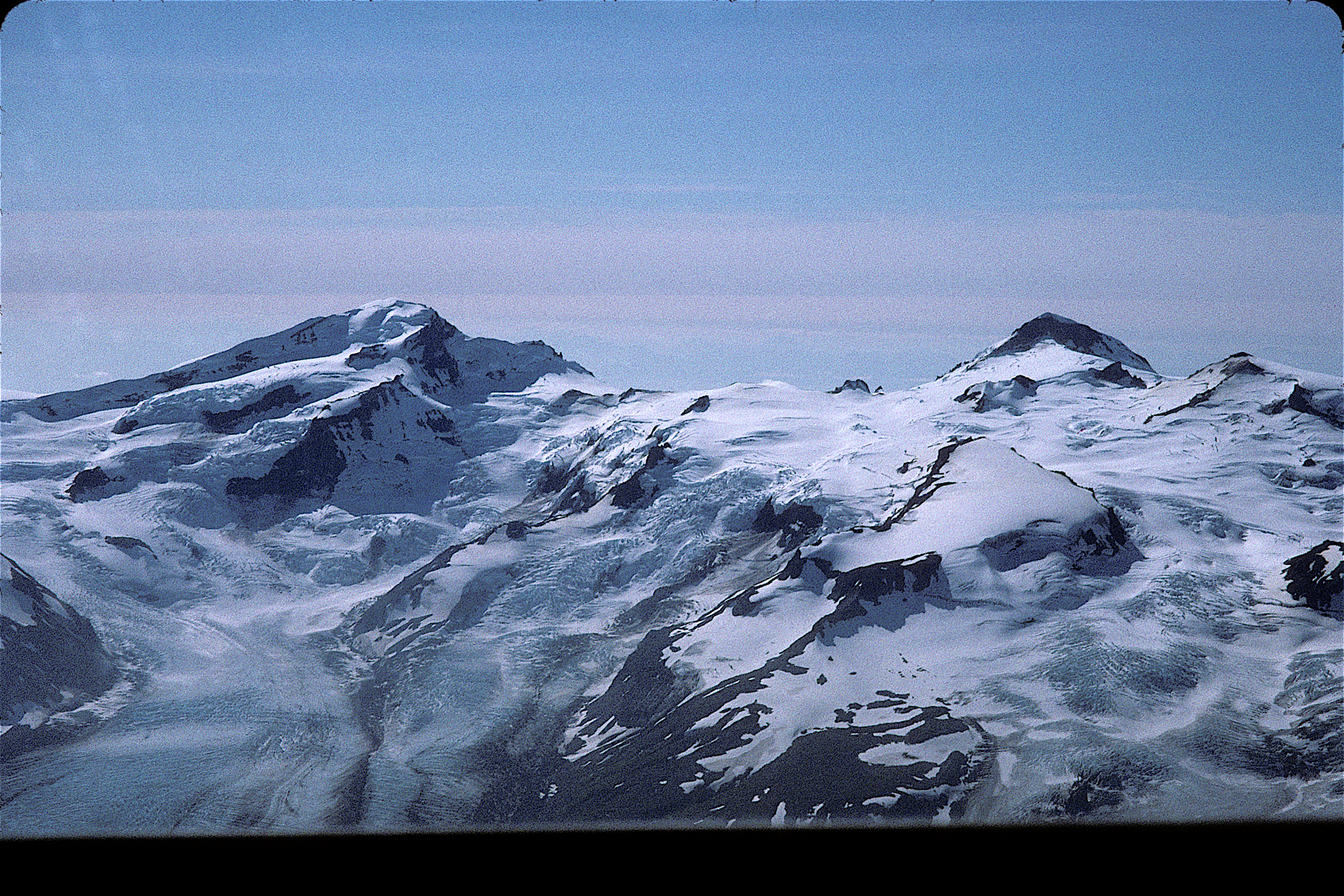 Volcanic peaks Steller(left), and Denison(right), Alaska.